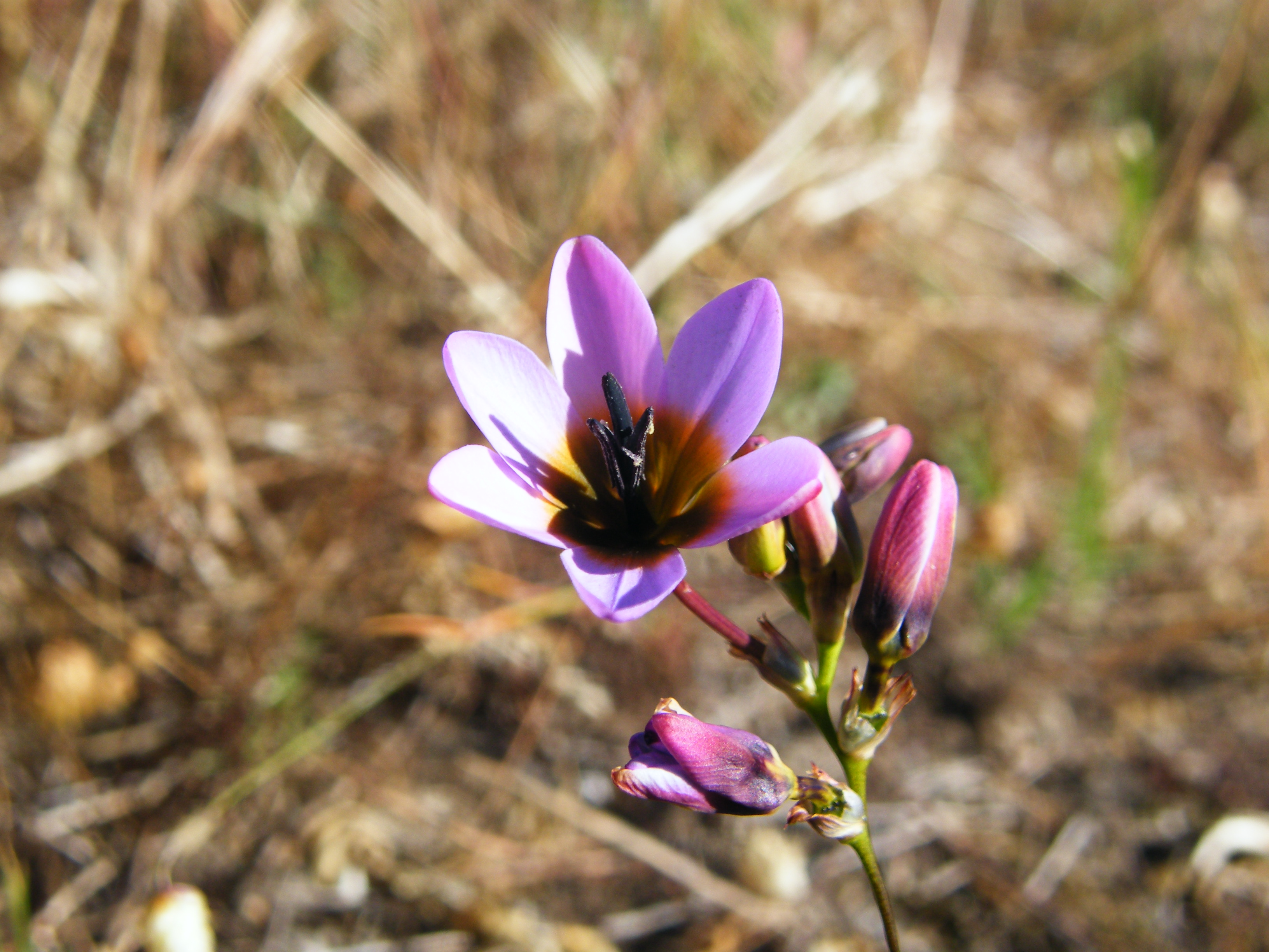 Ixia monadelpha